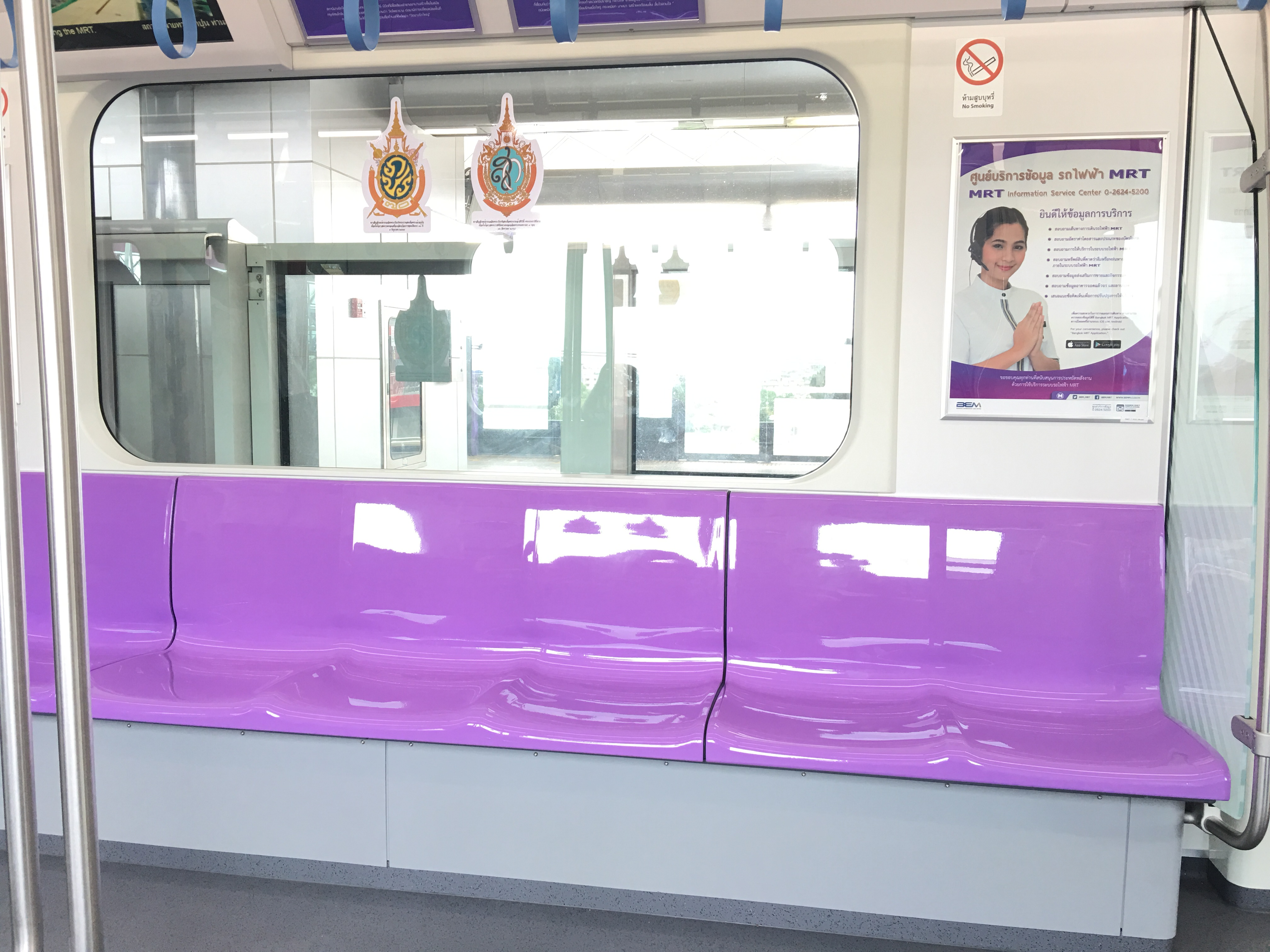 MRT Purple Line train's seating